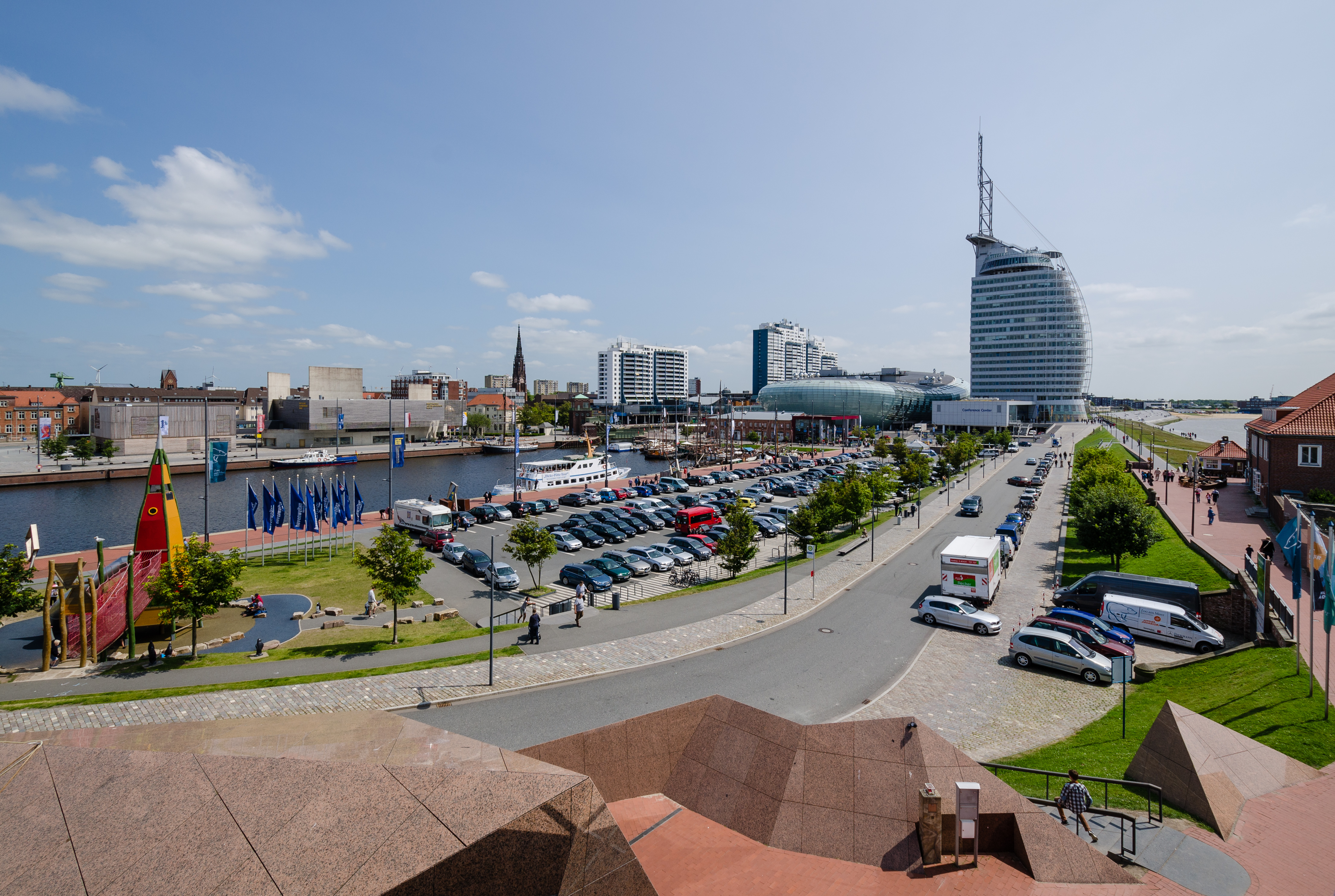 Overview over Havenwelten in Bremerhaven photographed from the zoo at the sea ("Zoo am Meer")